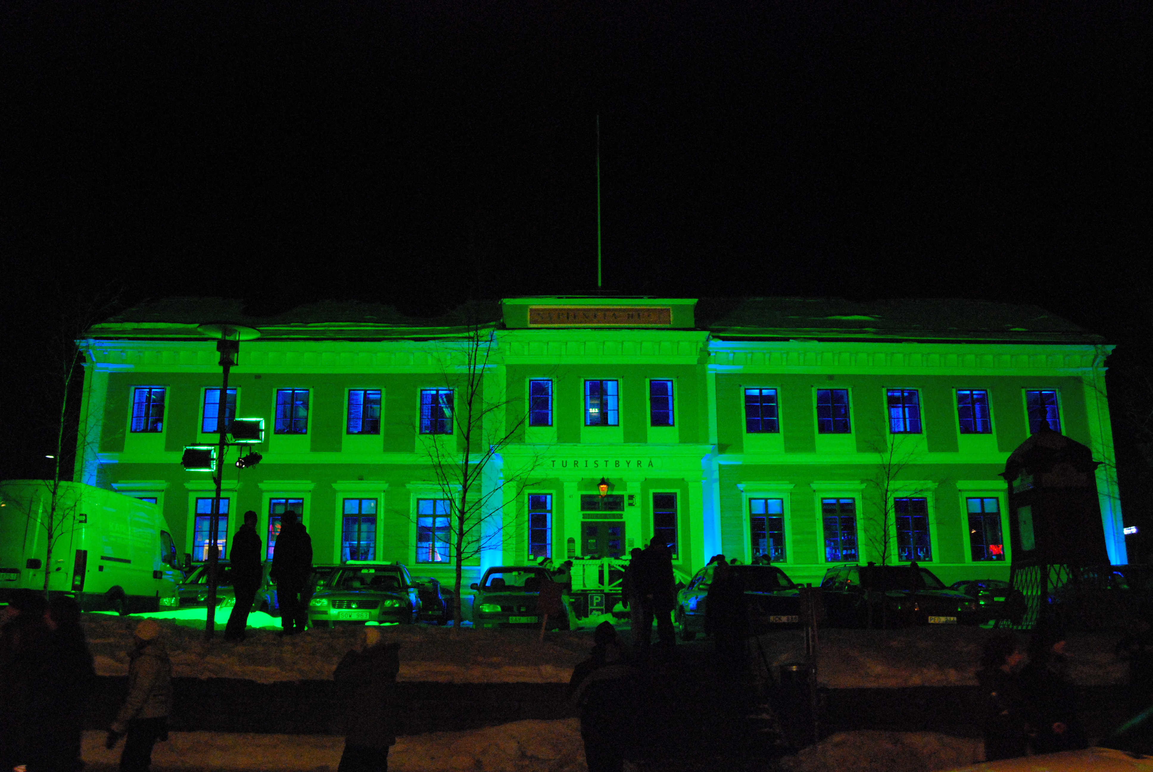 Tourist office in Östersund, Sweden. The image is not modified in any way, the building is illuminated with colored lights.